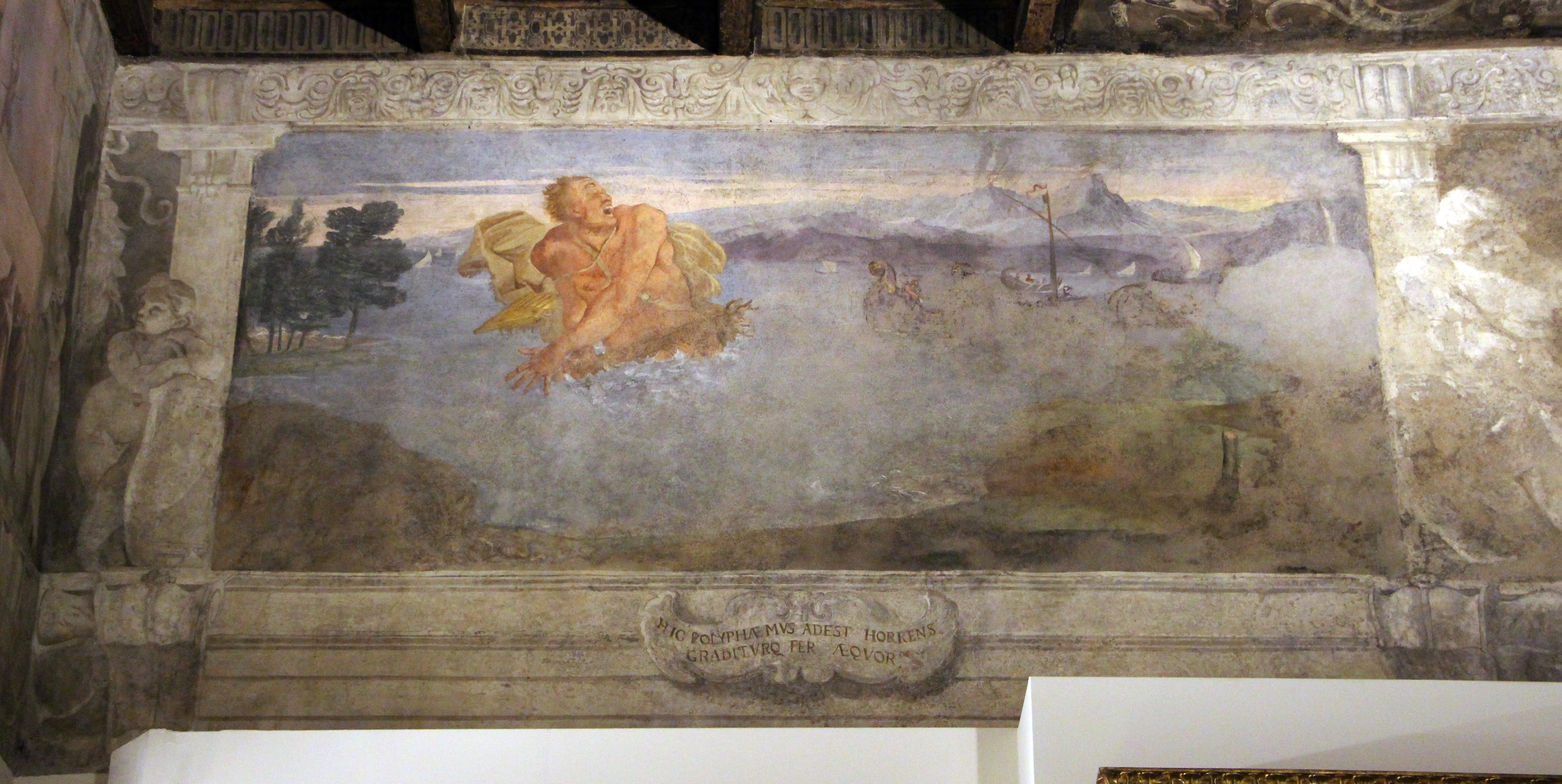 Frieze of Aeneas by the Carracci family